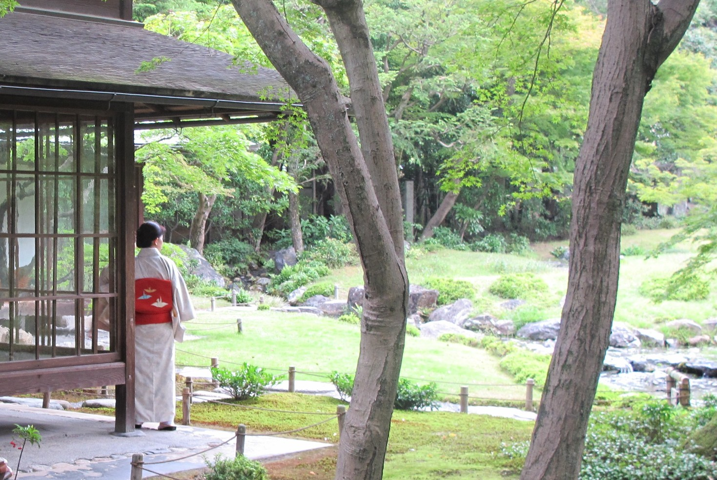 View in the garden of Yamagata Aritomo Villa at Kyoto